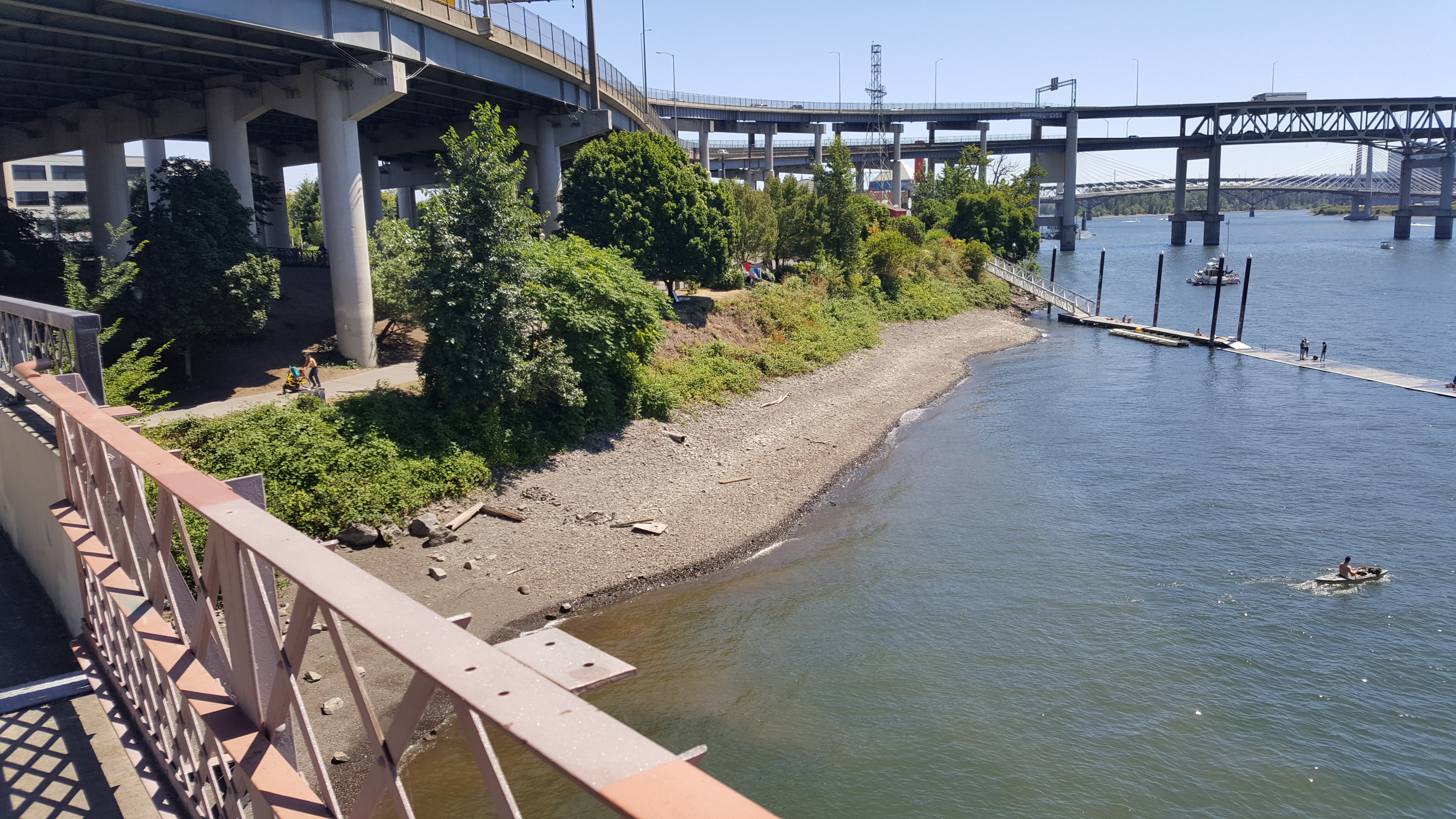 Portland, Oregon, July 25, 2020